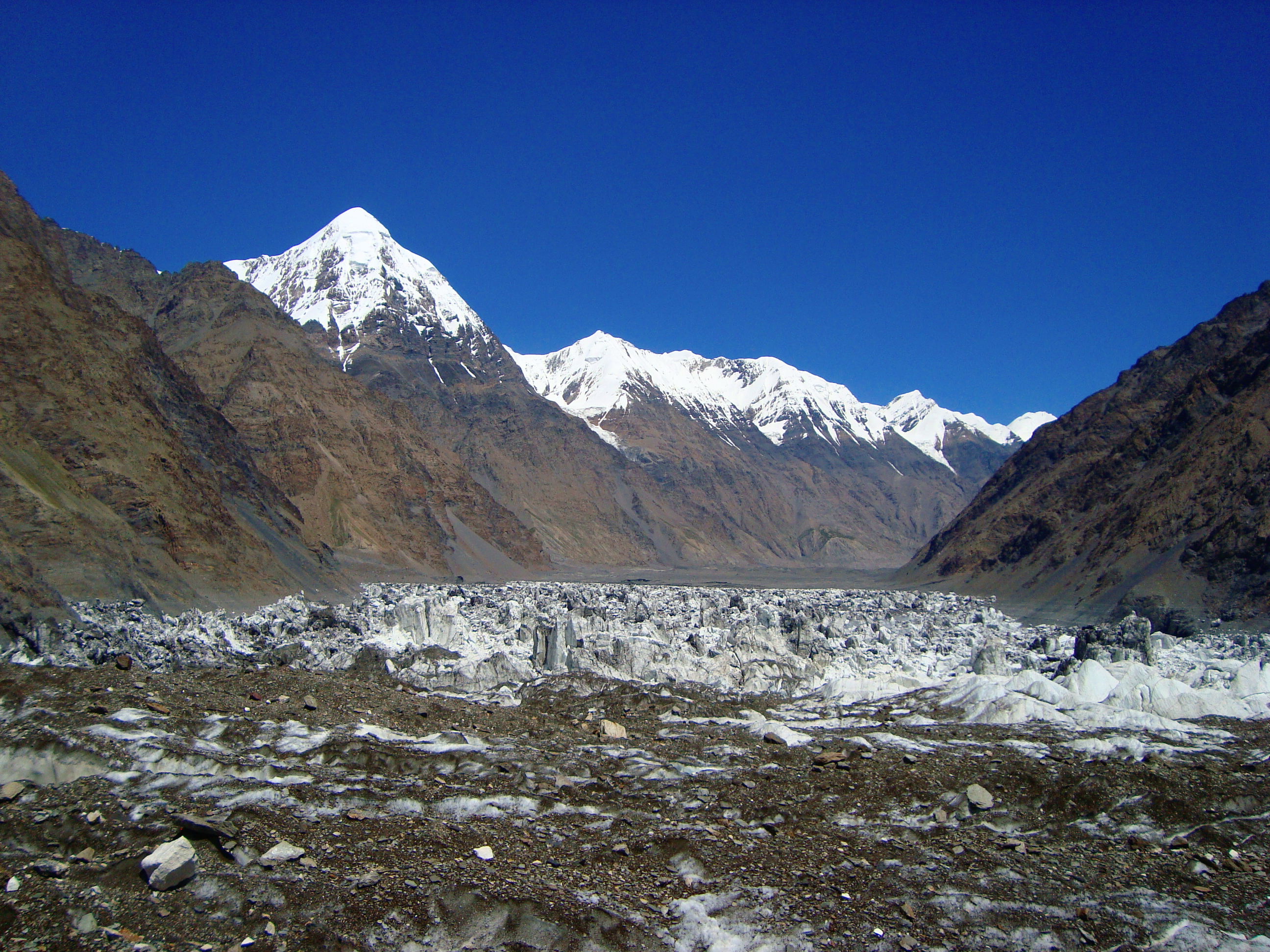 Inylchek Glacier with Lake Merzbacher after outburst in central Tian Shan, Asia.